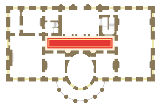 White House State Floor showing location of the Cross Hall. 22.02.07, Jim Hood.